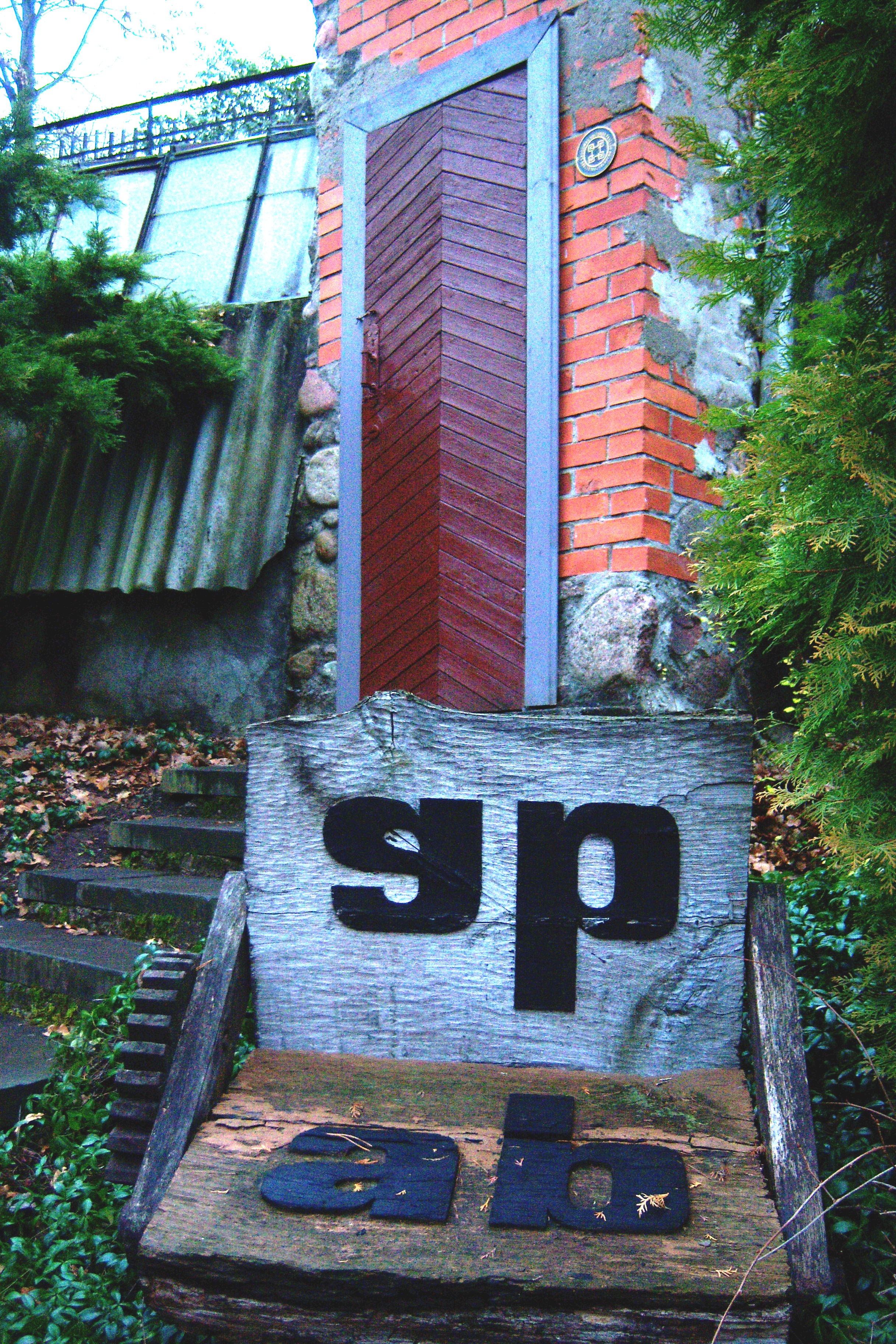 Museum of the underground printing house (Vytautas the Great War Museum affiliate), entry. Kaunas district, Lithuania